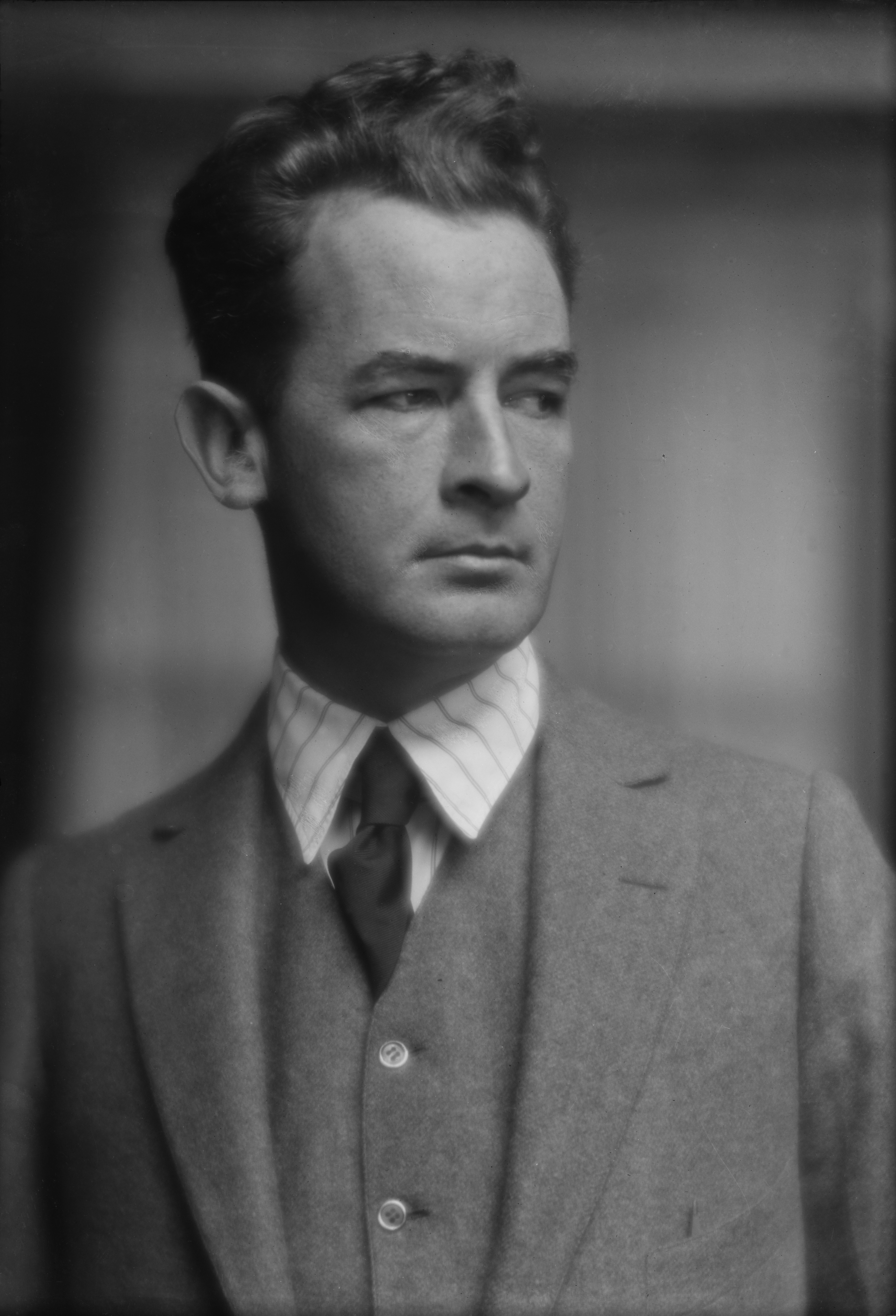 Mr. James Montgomery Flagg, portrait photograph, 1515